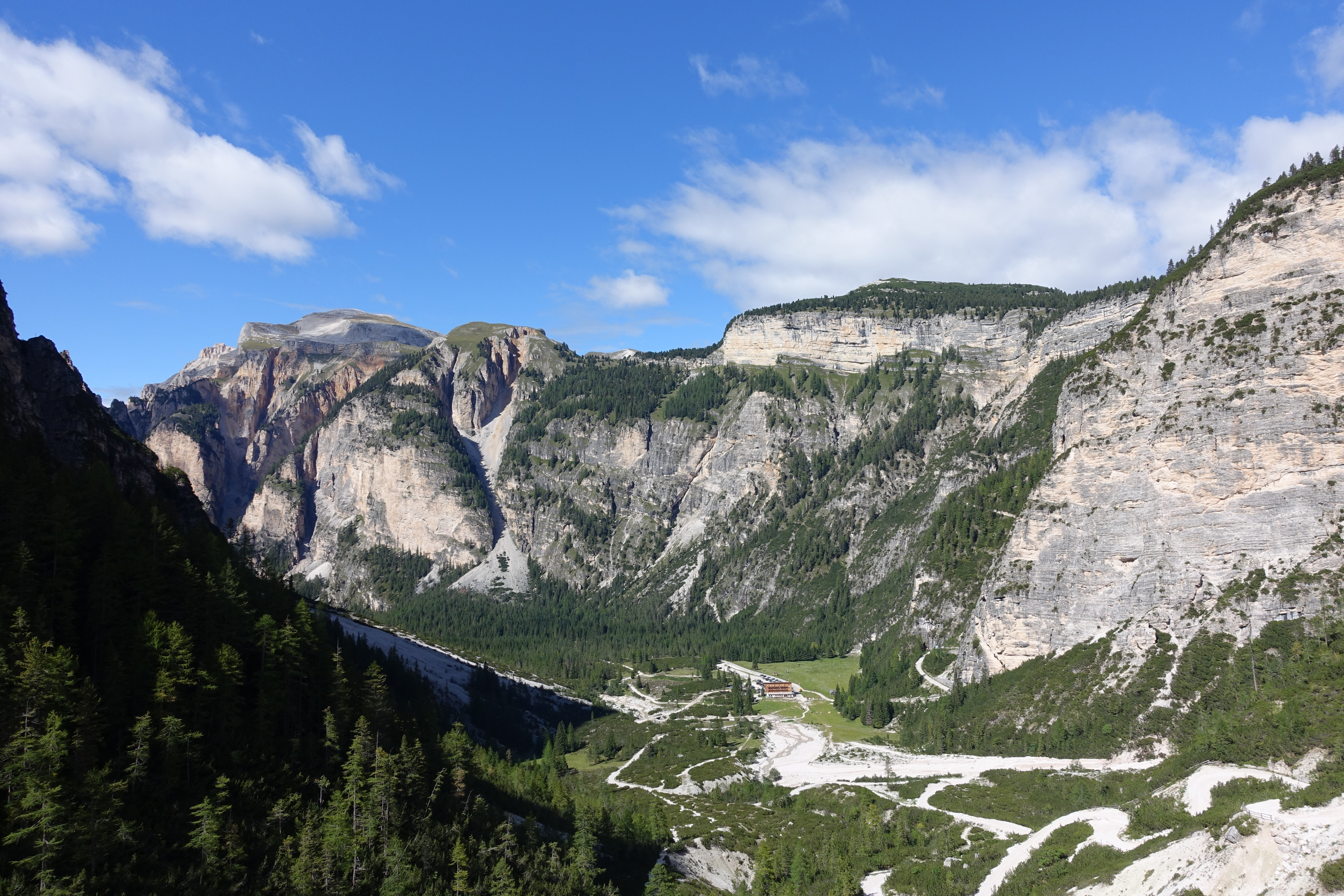 39030 Mareo, Province of Bolzano - South Tyrol, Italy